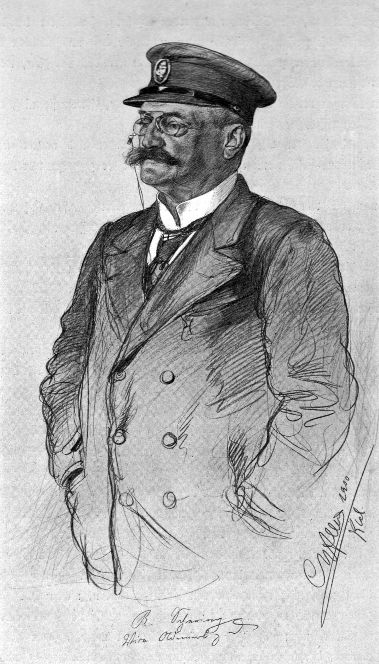 Vice Admiral Rudolf Schering in 1900.